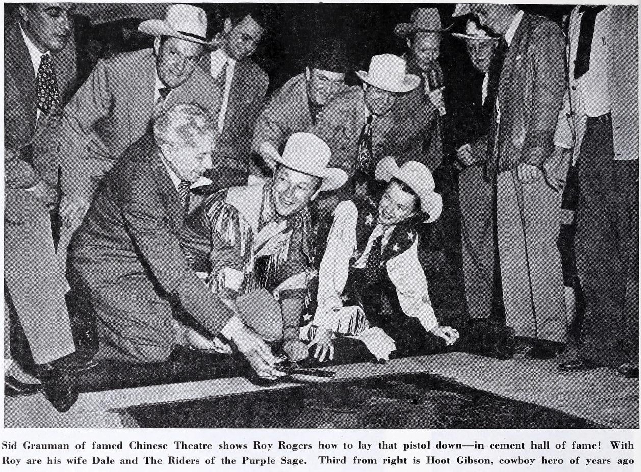 Sid Grauman, Roy Rogers, Dale Evans and Hoot Gibson at Rogers' imprint ceremony at Grauman's Chinese Theatre, 1949